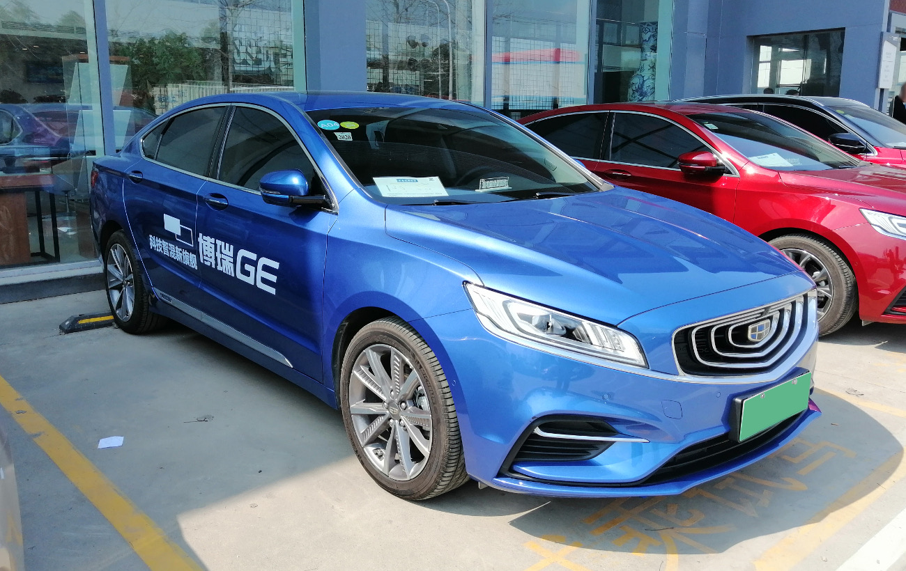 Geely Borui GE PHEV photographed in Hefei, Anhui province, China.